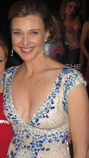 Brenda Strong at the Miss America 2006 pageant. Strong was Miss Arizona 1980 and is best known for her role as Mary Alice Young on Desperate Housewives